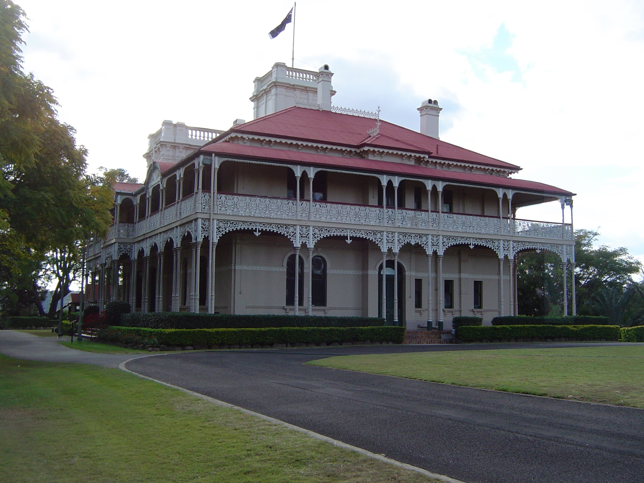 Photo of Woodlands at Marburg in Marburg, Ipswich, Queensland, Australia.